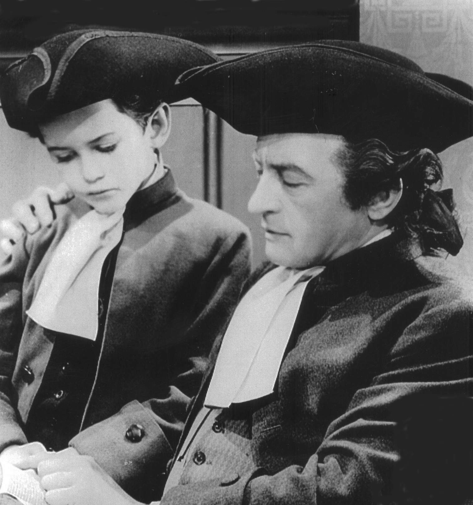 Ernie Weckbaugh and Claude Rains acting in The Sons of Liberty (1939).